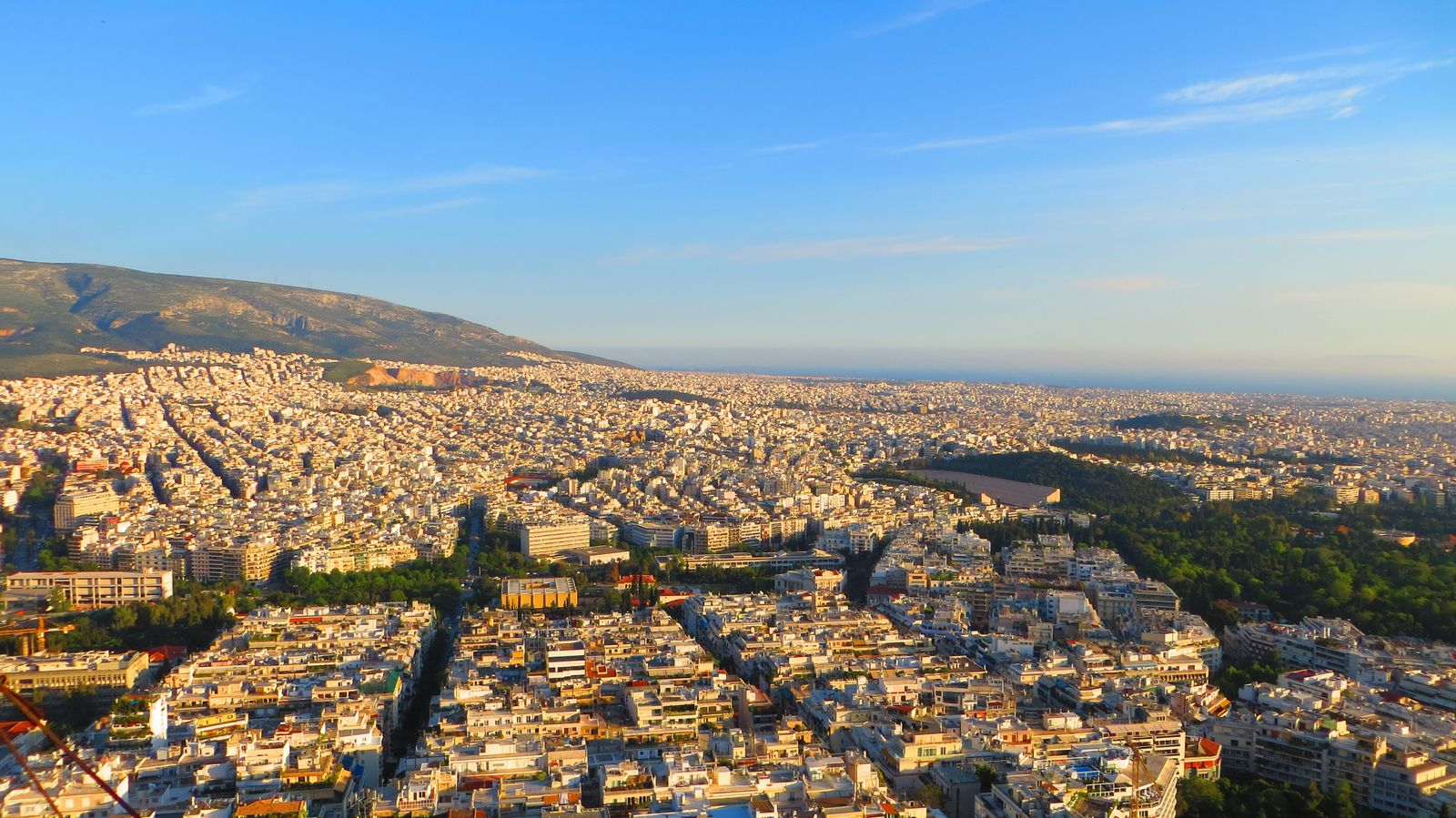 View from Lycabetus